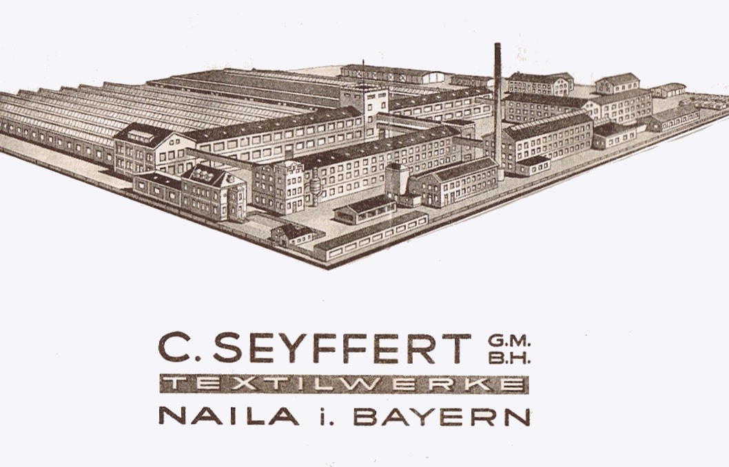 manufactory C.Seyffert